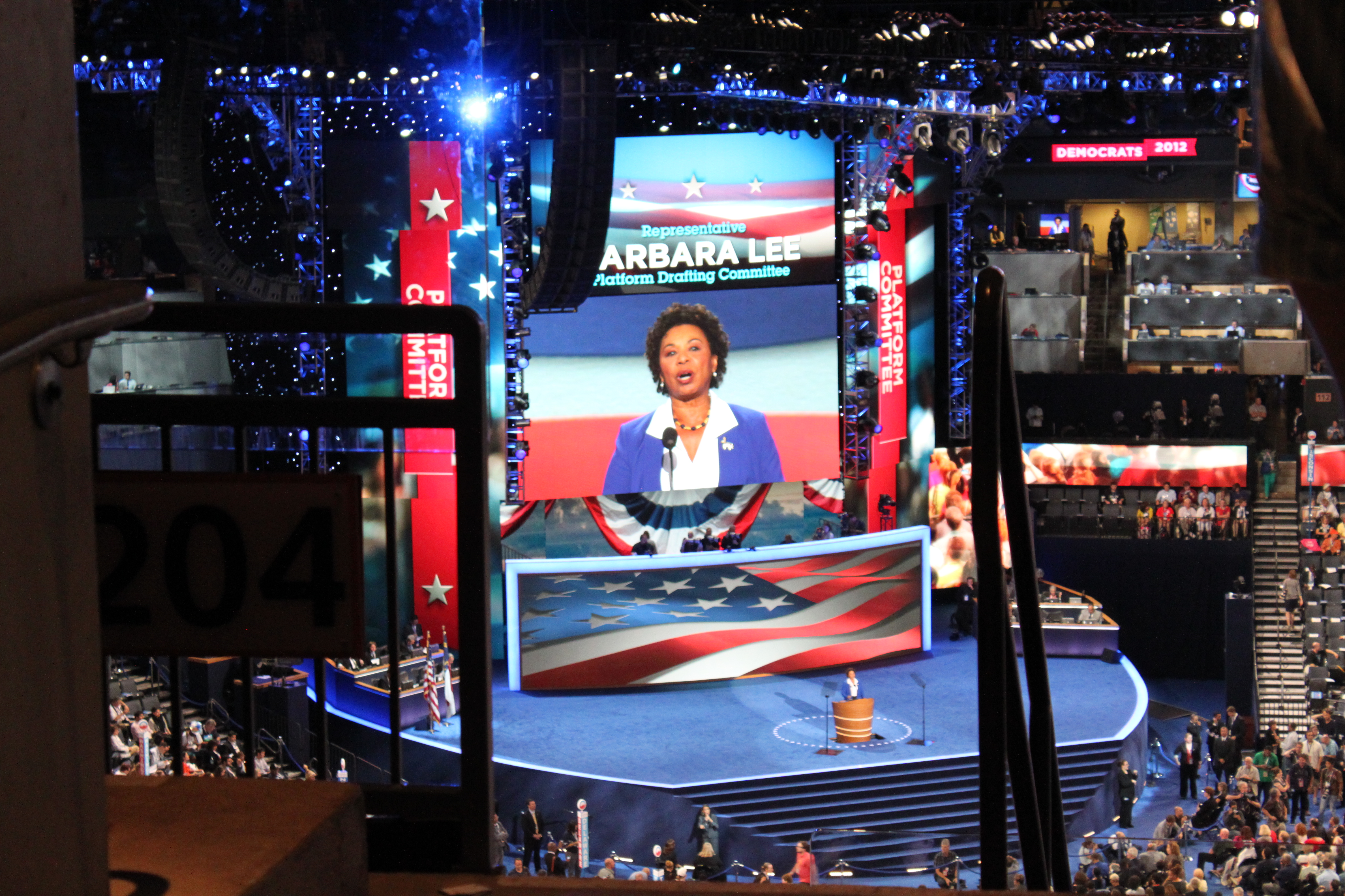 2012 Democratic National Convention